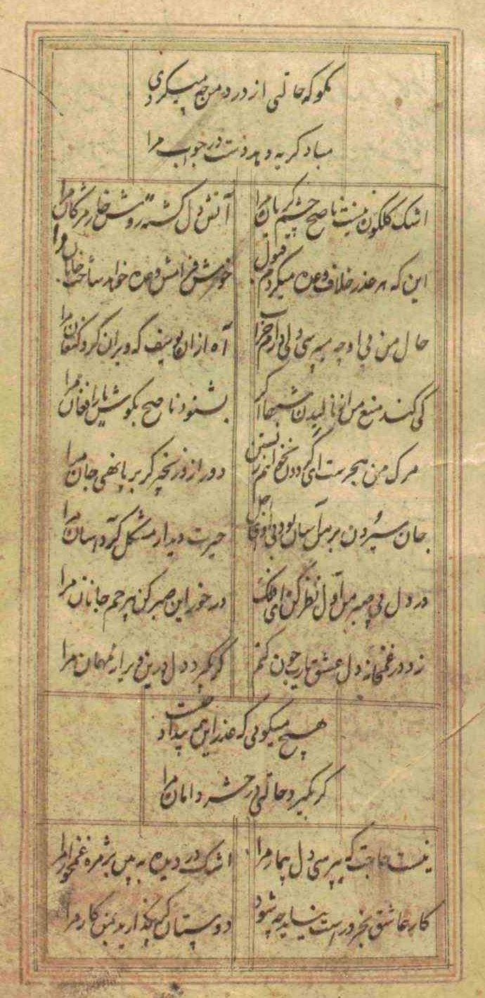 Manuscript of Diwan of Qasim Beg Halati, page 12